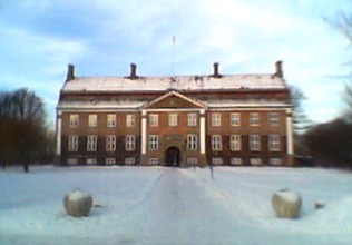 Svanholm Manor in Denmark. A lousy photo of the main building seen from the front. I (Rune Kock) have taken this photo myself, on a snowy day in January, 2006.